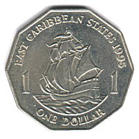 Cropped from Image:East Caribbean 2006 circulating coins.jpg. East Caribbean 2006 circulating coins.